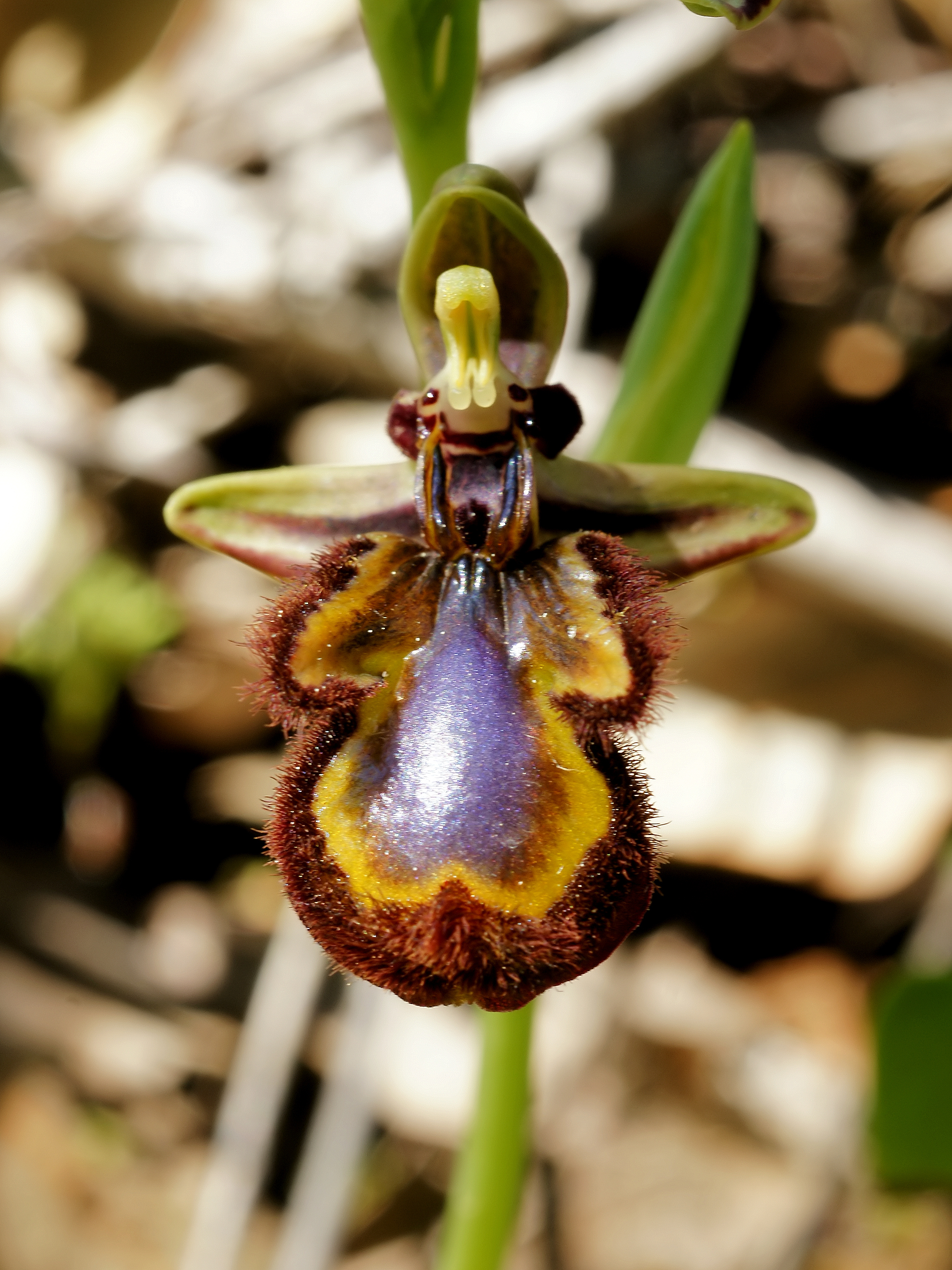 Mirror orchid. Approximate co-ordinates: plant located within 5 km from Ussassai, Sardinia, Italy